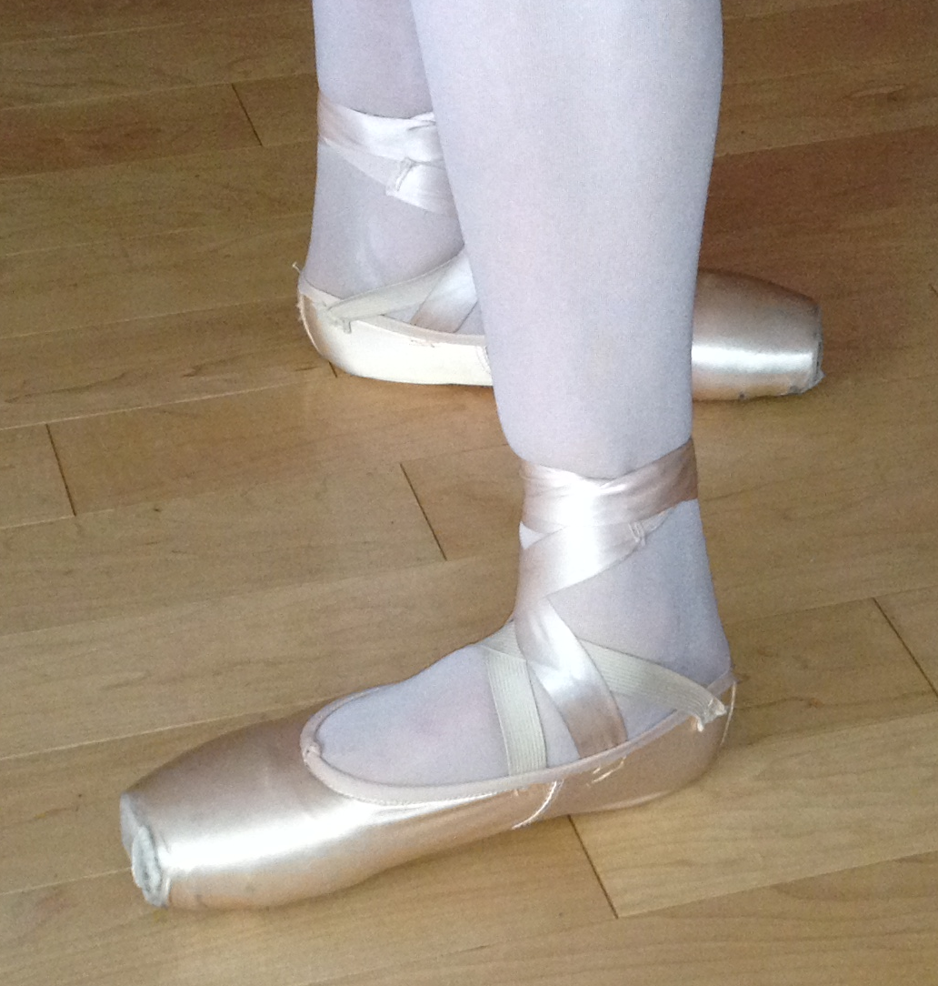 A ballet dancer demonstrating Open Fourth Position.